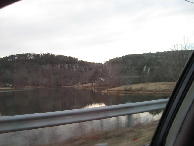 Pilings of the TAG Yellow Creek Bridge near Leesburg, Alabama over Lake Weiss viewed from Alabama 273 bridge during winter.